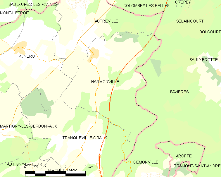 Map of French municipality Harmonville